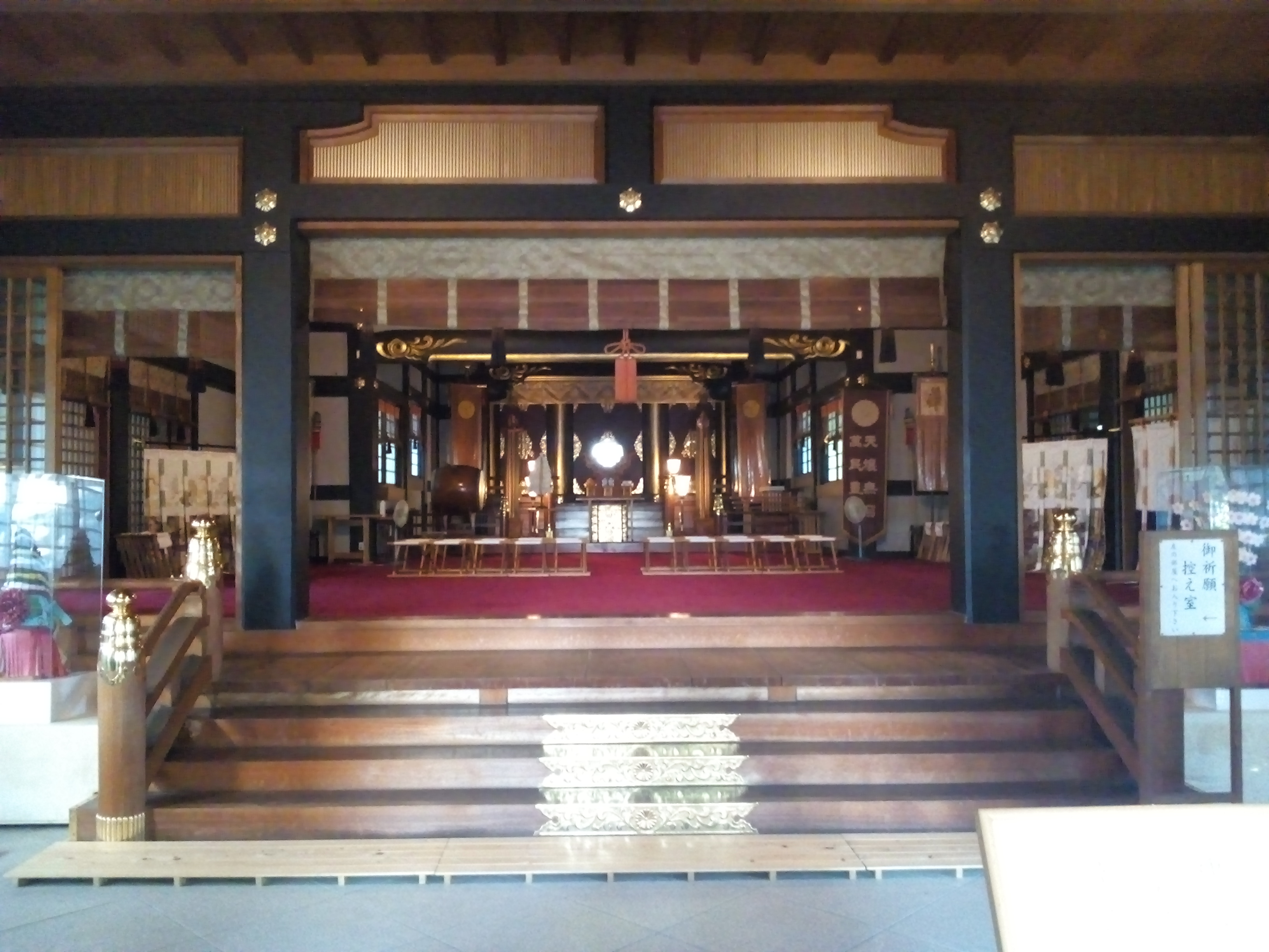 Honden at Oji jinja, Tokyo